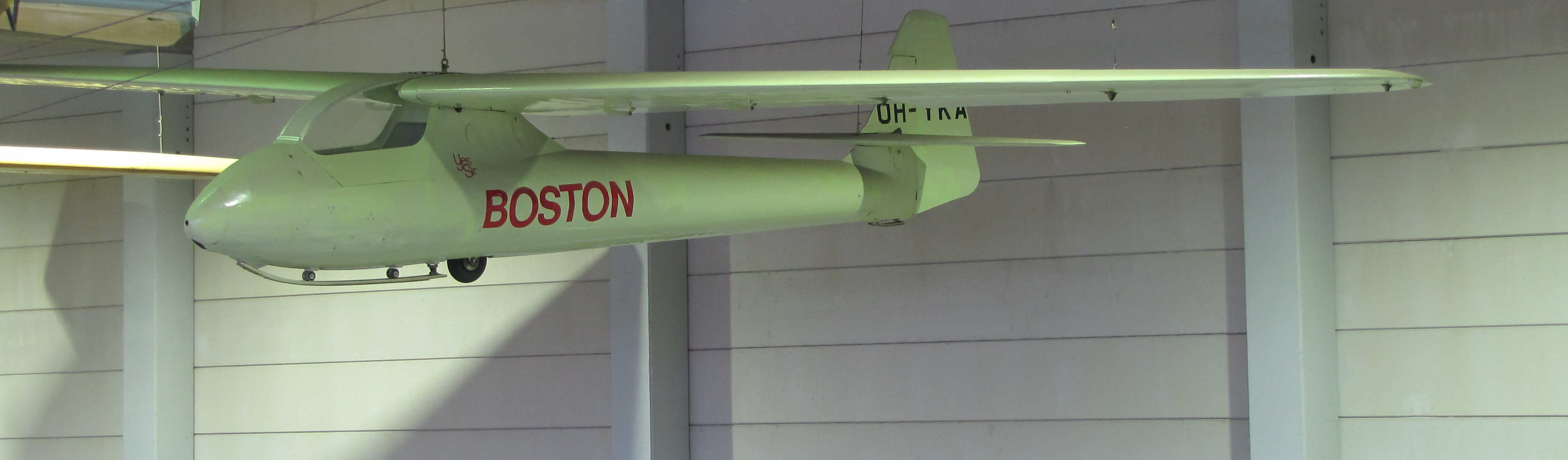 PIK-3a "Kanttikolmonen" glider in Finnish Aviation Museum. Donated to museum in 1978 by PIK, orignal registration OH-PCA.